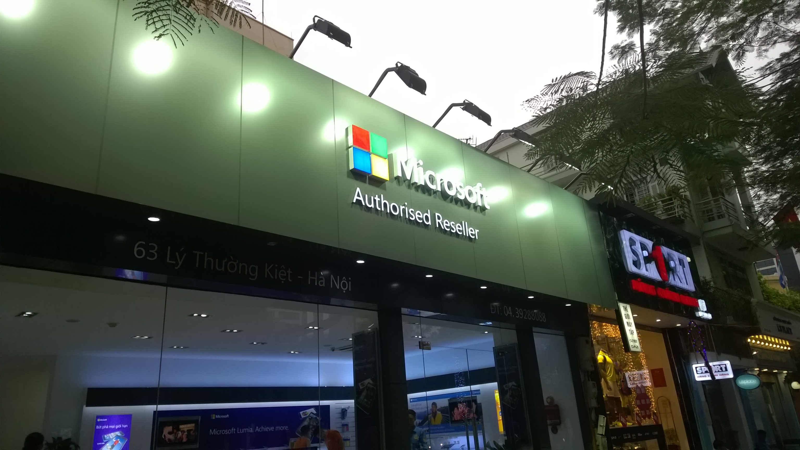 A storefront of Microsoft Mobile Oy.